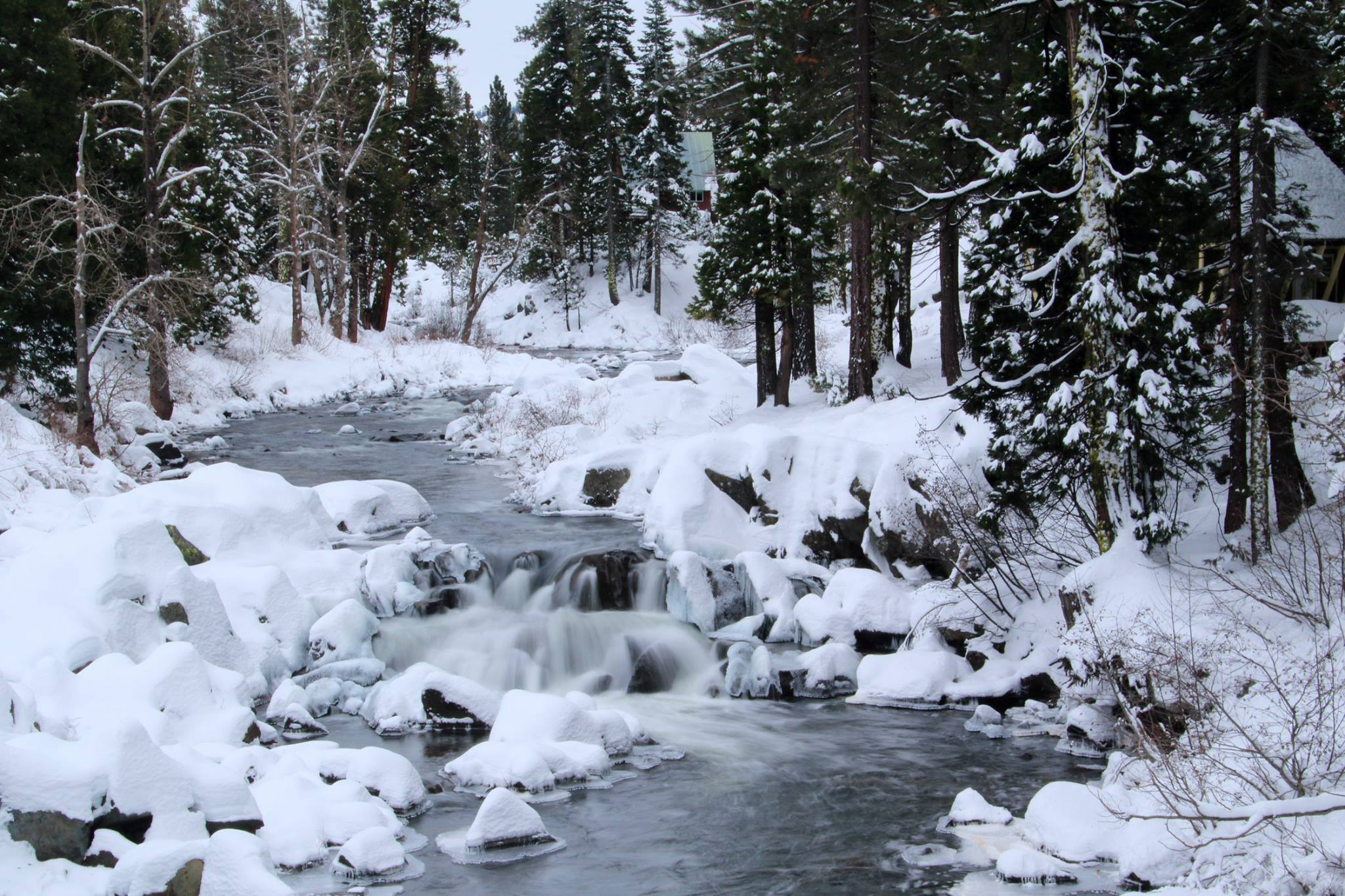 170227-FS-Tahoe-MatthewRhodes